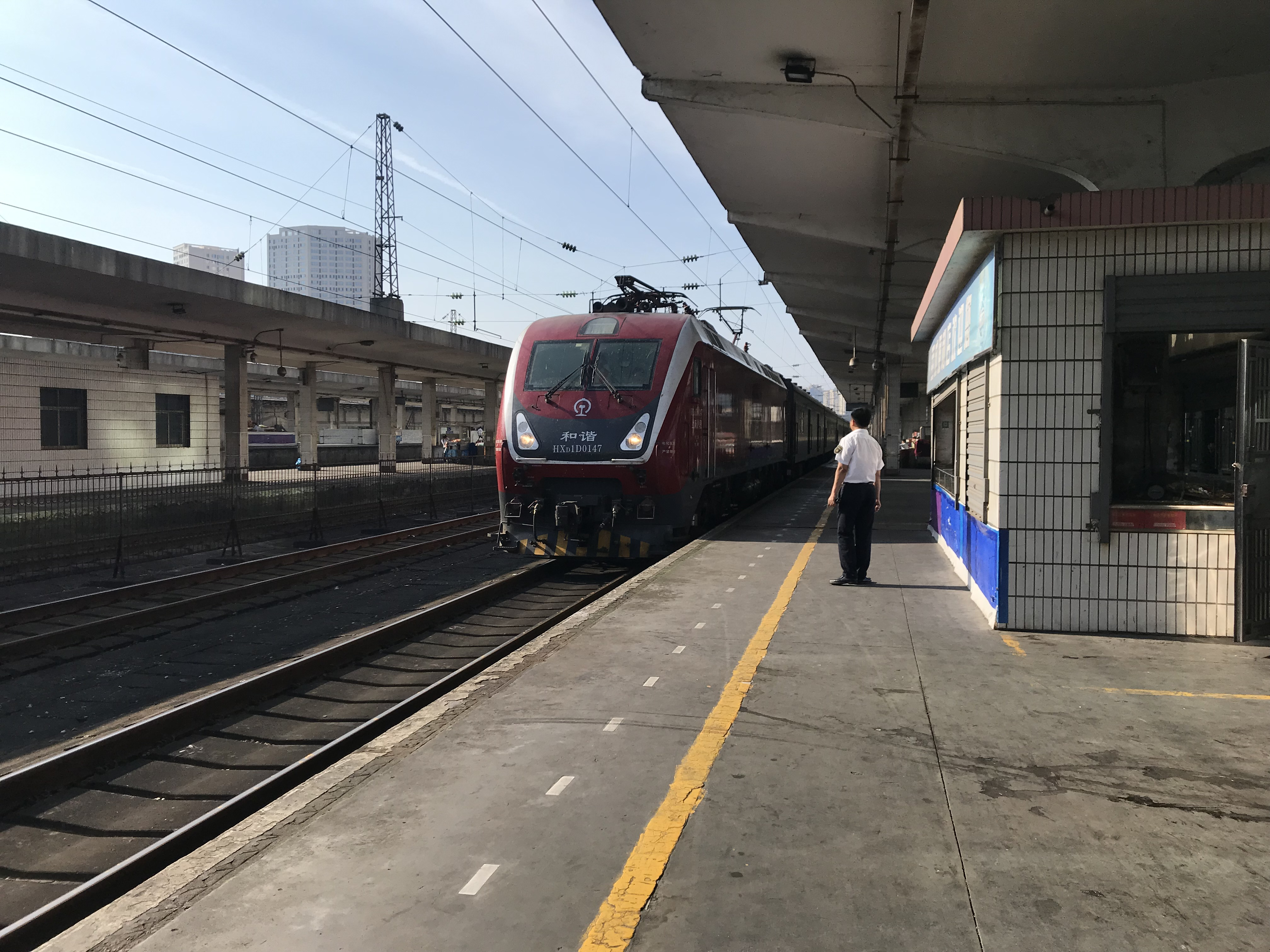 201906 HXD1D-0147 hauls K79 enters into Zhuzhou Station